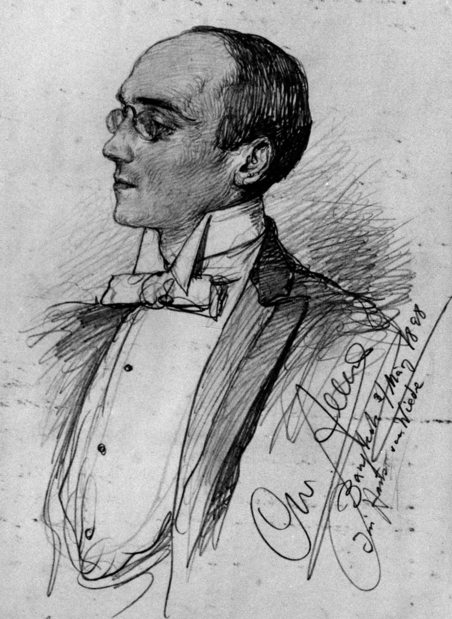 Portrait of John Barrett, U.S. diplomat, in Bangkok.